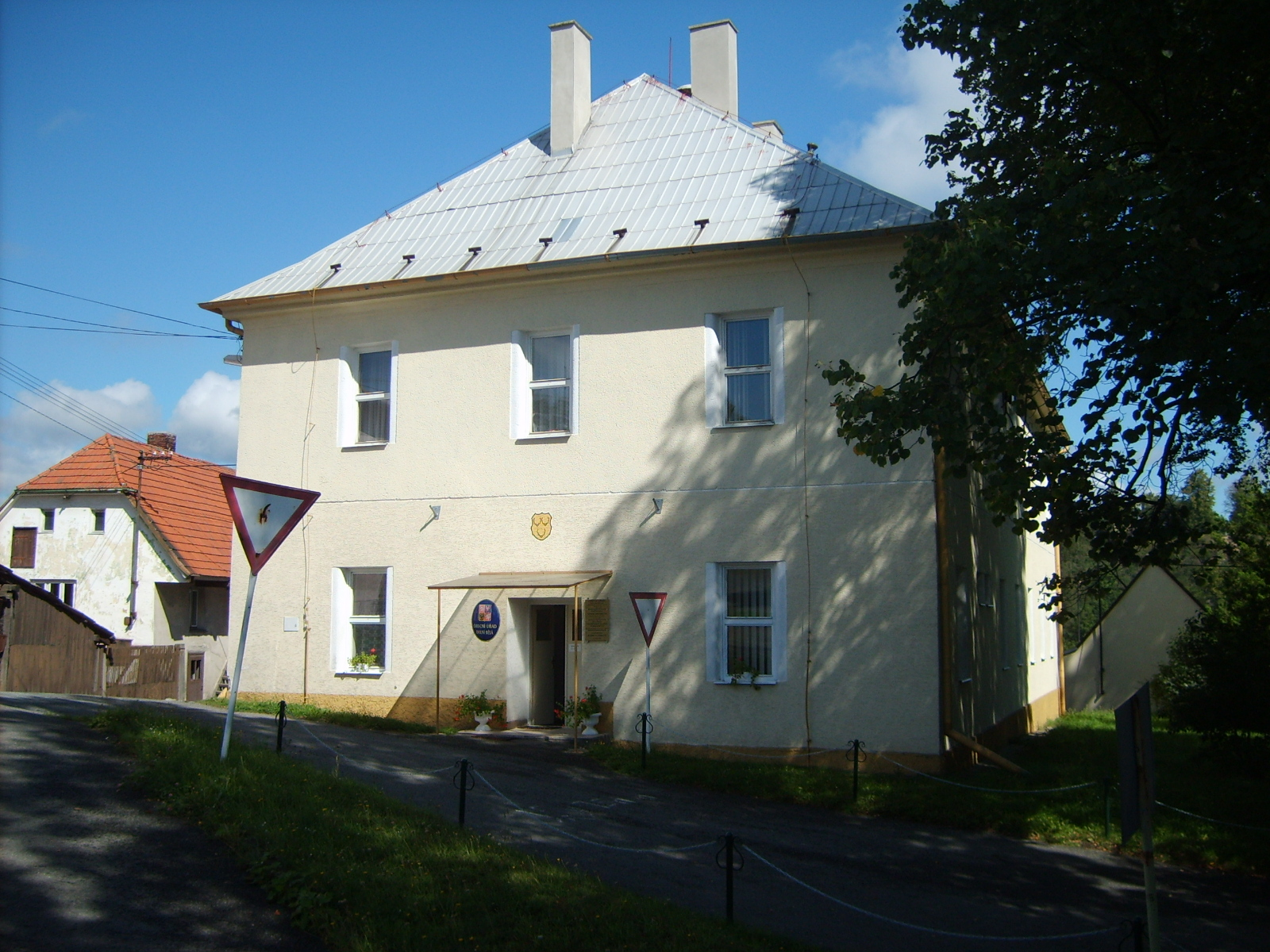 Municipality office in Dolní Bělá (Plzeň-North District, CZ)